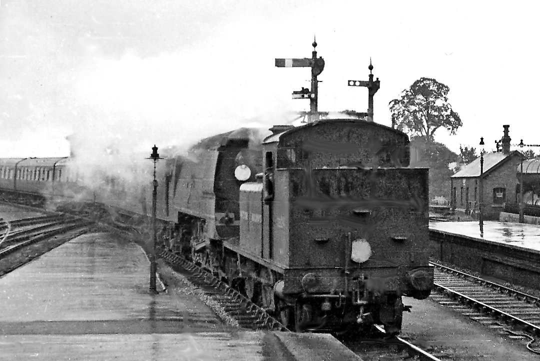 Waterloo - North Cornwall express entering Exeter St David's. View southward at the end of the island platforms used by SR trains at Exeter St David's, with the WR main line to Newton Abbot, Plymouth and Penzance straight ahead. The 07.33 Summer Saturdays from Waterloo is coming down the incline on the left from Exeter Central. To save time and line-occupation, one of the incline bankers is piloting. The train engine is Bulleid Light Pacific No. 34016 'Bodmin' (built 11/45 as No. 21C116, rebuilt and renumbered 1958, withdrawn 6/64 but preserved and now (2012) on the Mid-Hants Railway). The banker is Maunsell E1/R 0-6-2T No. 32124, built originally as E1 0-6-0T No. 124 'Bayonne', becoming SR No. 2124 and rebuilt 12/28, withdrawn 1/59. [Unfortunately, it was pouring with rain, but the 1949 photograph has various interesting features].